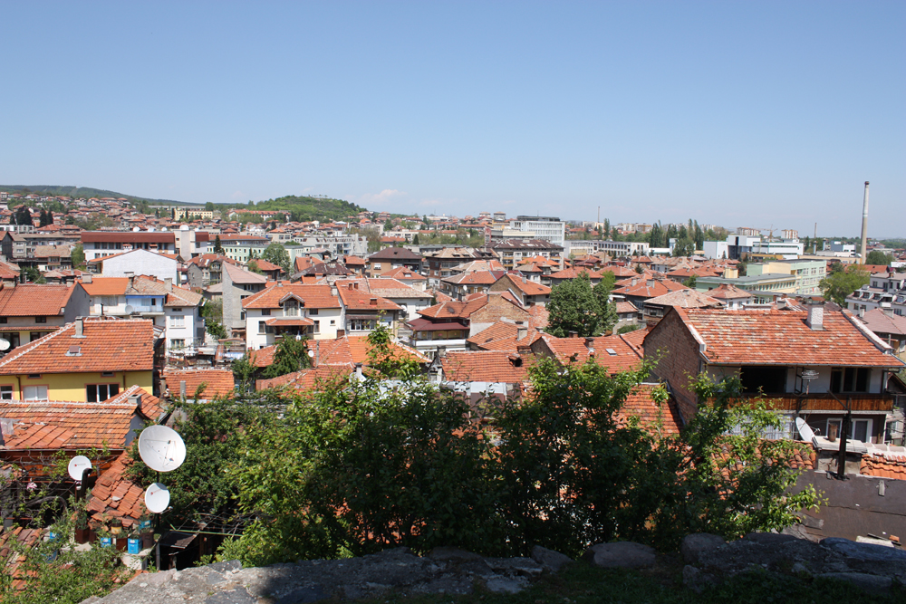 Partial panorama of Preshtera from the clock-tower